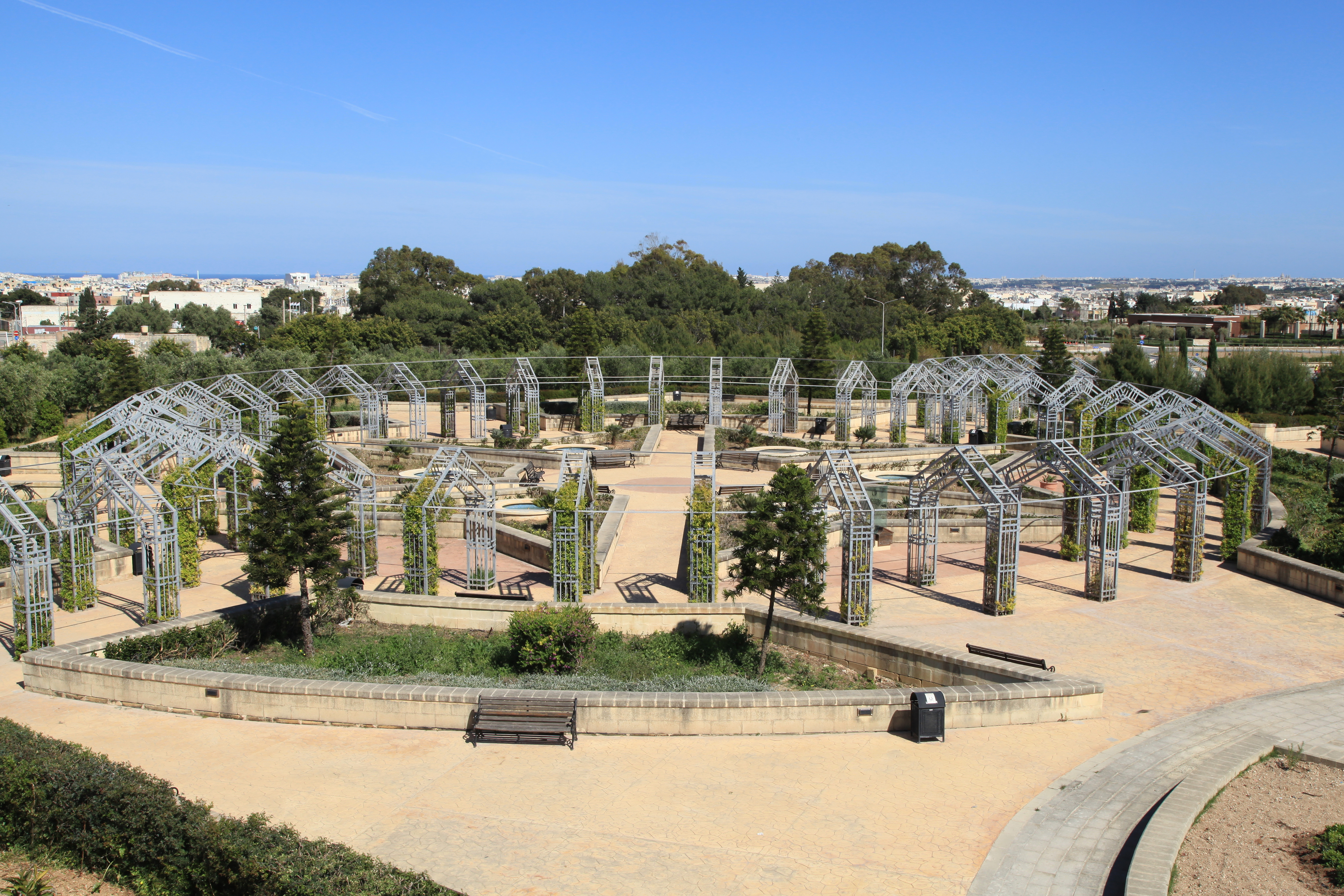 Ta' Qali National Park (principal part) in Attard, Malta